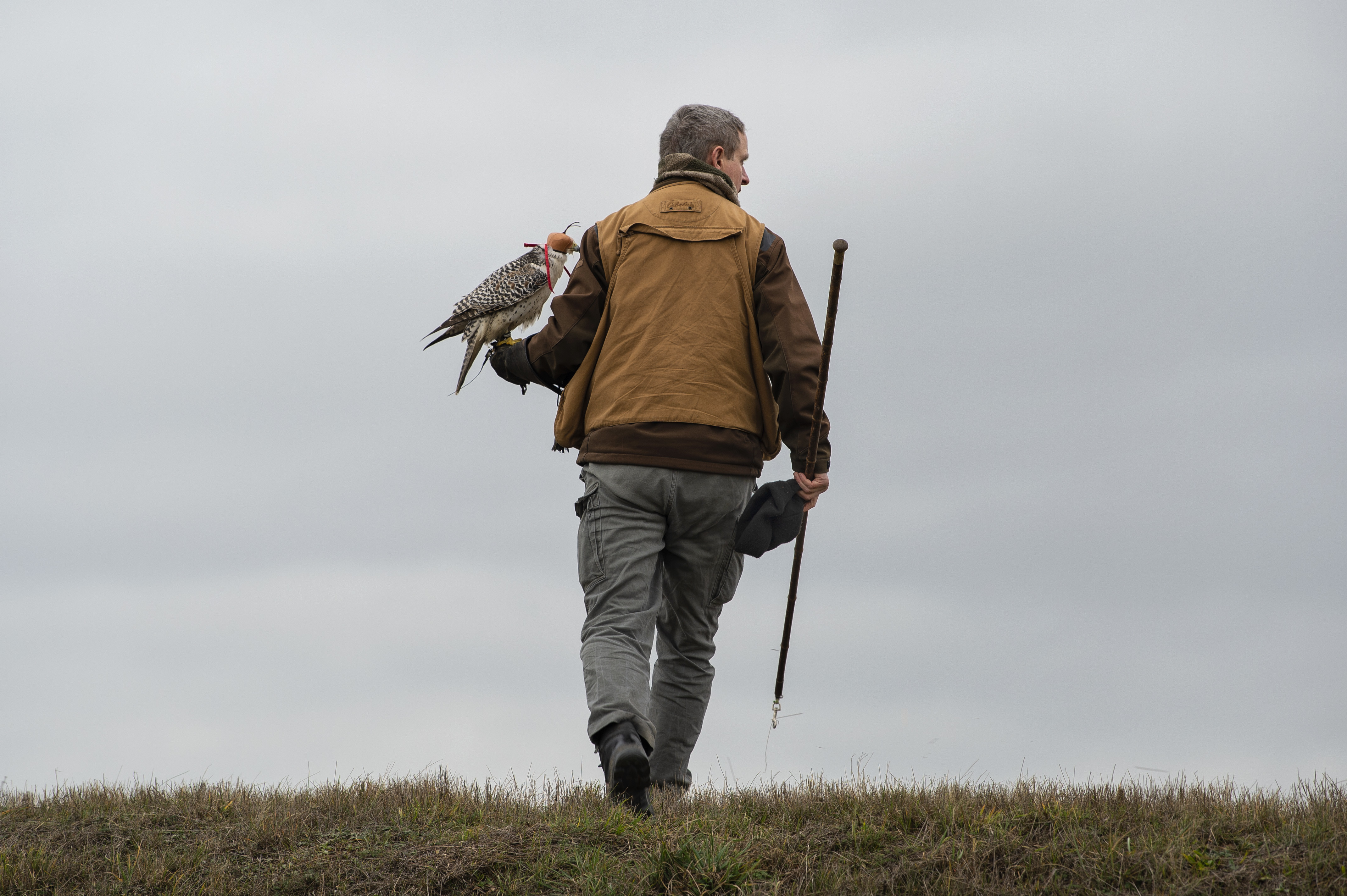 Jens Fleer, 52nd Fighter Wing base falconer, prepares to hunt with a female hawk at Spangdahlem Air Base, Germany, Jan. 16, 2019. Hawks are trained to catch pests that could potentially get caught in, and damage aircraft. (U.S. Air Force photo by Airman 1st Class Valerie Seelye)